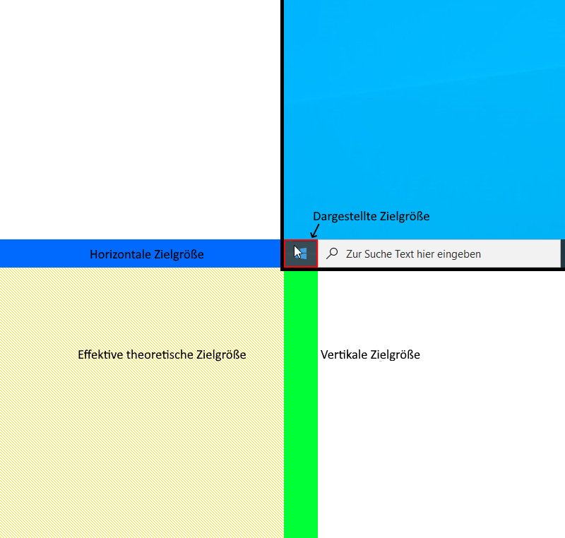 Picture showing the Magic Corners concept used in UI-Design. The picture has a German caption.